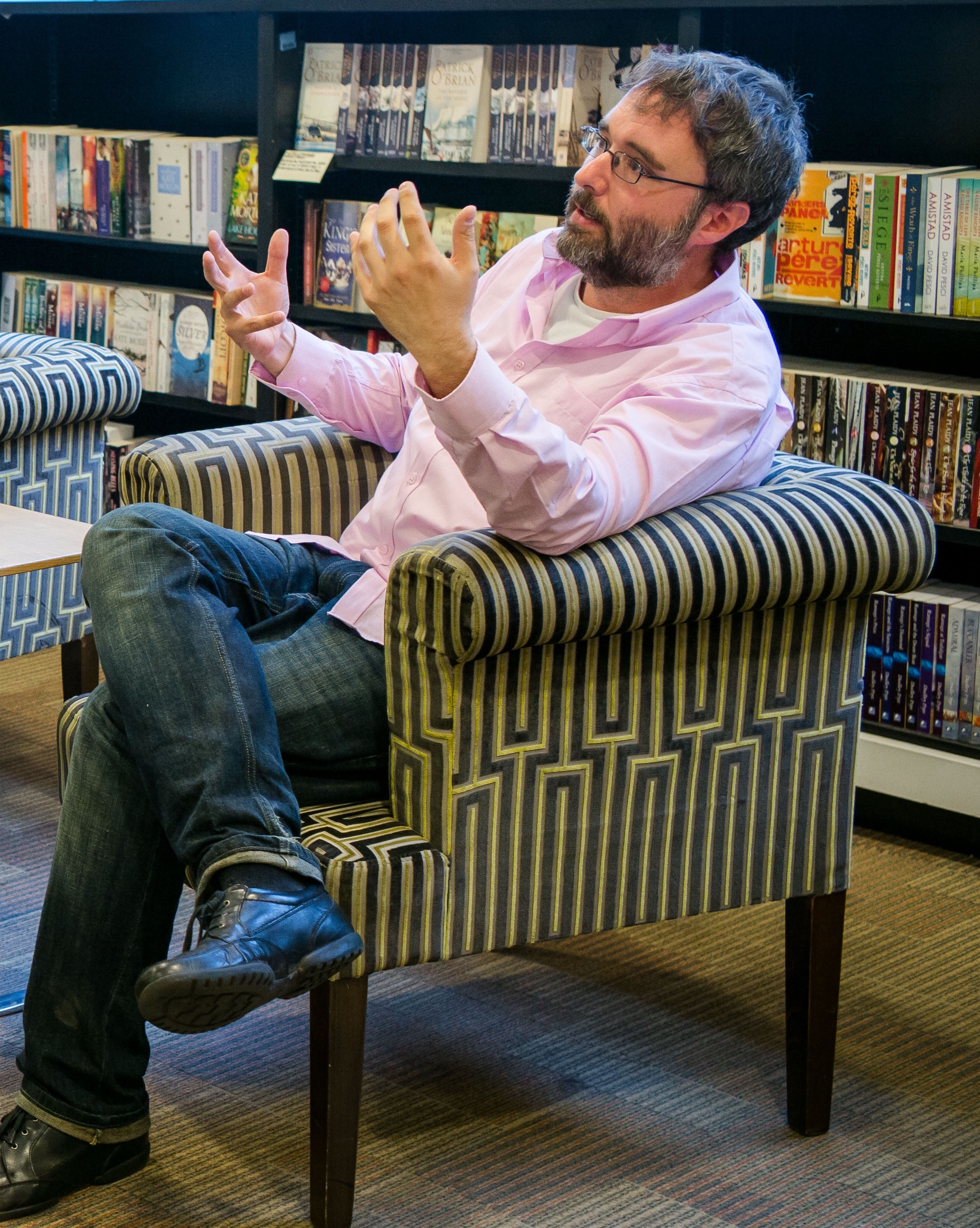 Novelist Michael Grothaus at public book signing at the Piccadilly Waterstones bookstore in London on June 30, 2016.